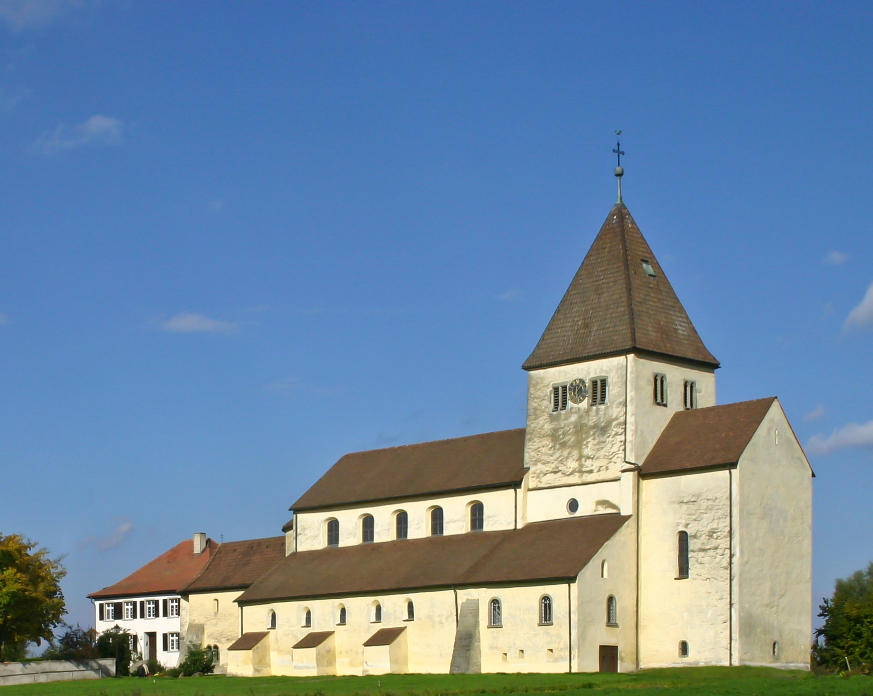 Church St George, Reichenau-Oberzell, Monastic Island of Reichenau, county Konstanz, Baden-Württemberg, Germany